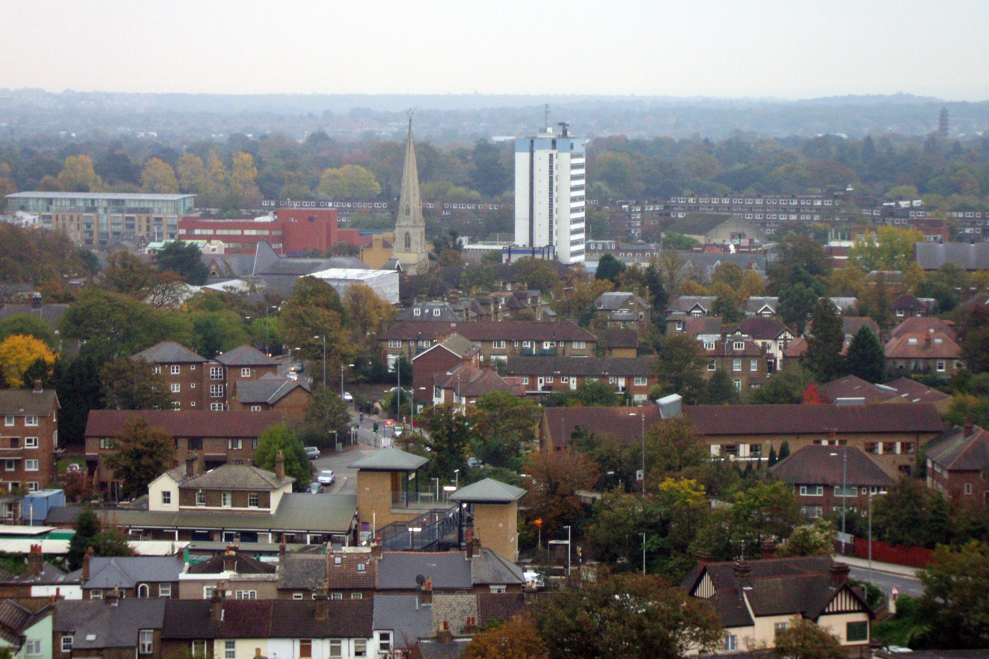 Skyline of Brentford Town, taken from a high window of a tower block to the north.